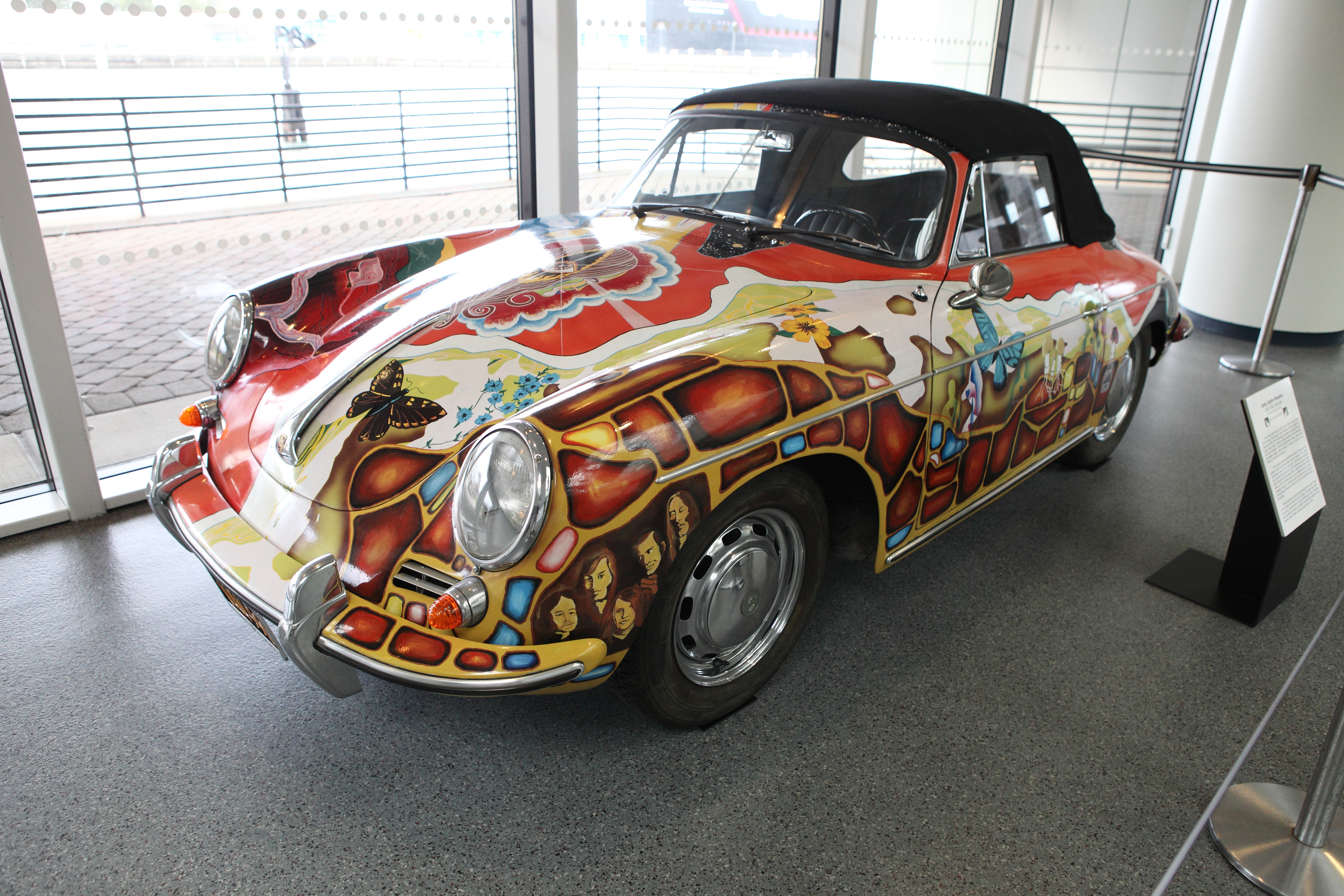 Janis Joplin's Porsche at the Rock and Roll Hall of Fame in Cleveland, Ohio. Flickr Tags: Rock and Roll Hall of Fame Cleveland Ohio Janis Joplin Spotlight Artifact car automobile 1965 Porsche 356c Cabriolet art painted car. from Flickr album "Rock and Roll Hall of Fame" by Sam Howzit